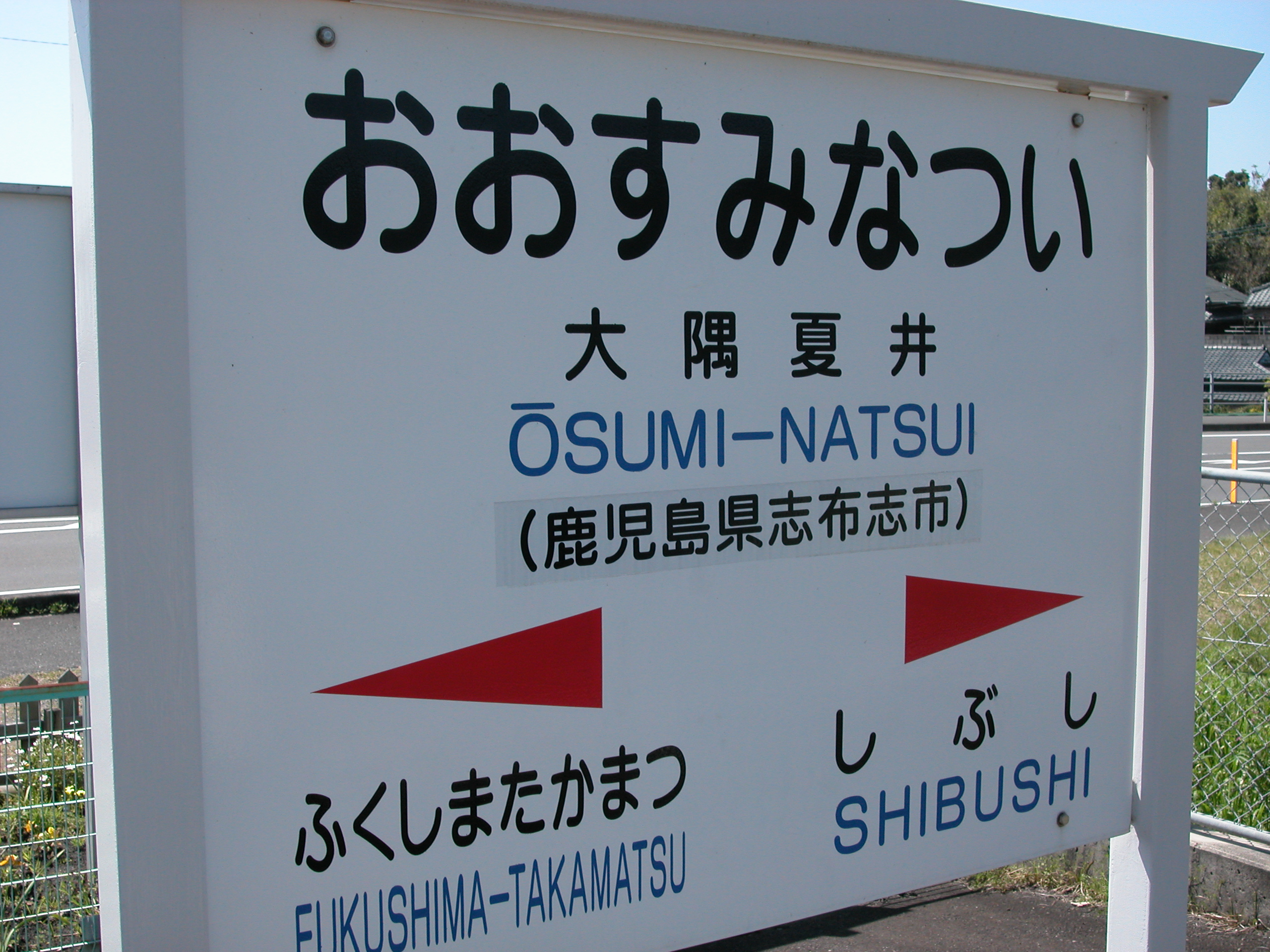 Nameplate of Osumi-natui Station